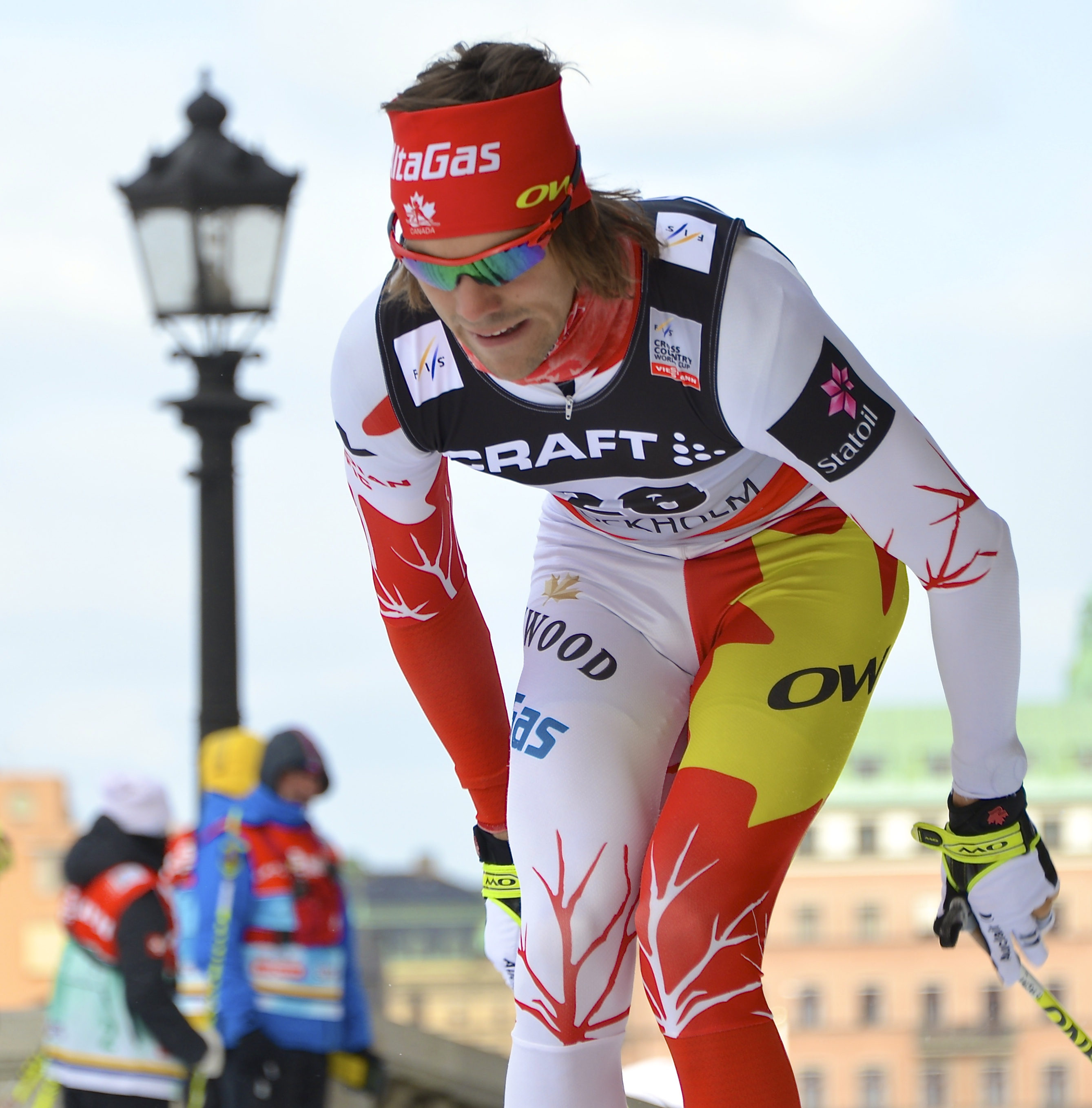 Len Väljas at Royal Palace Sprint in Stockholm March 20, 2013